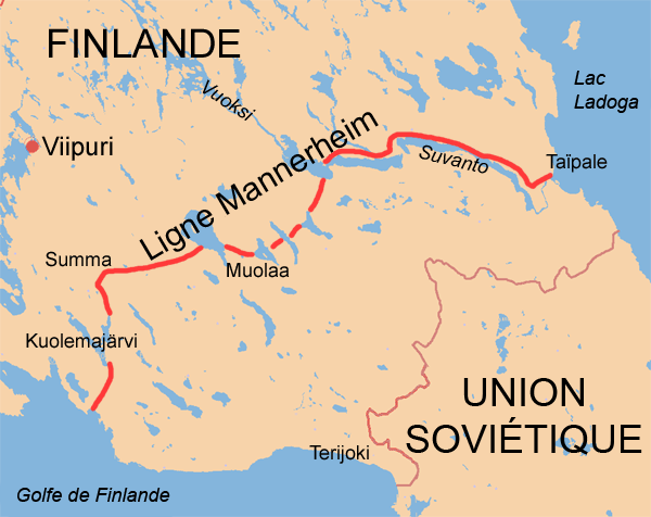 Map of the Mannerheim Line, the Finnish main defense line across the Karelian Isthmus in Winter War.